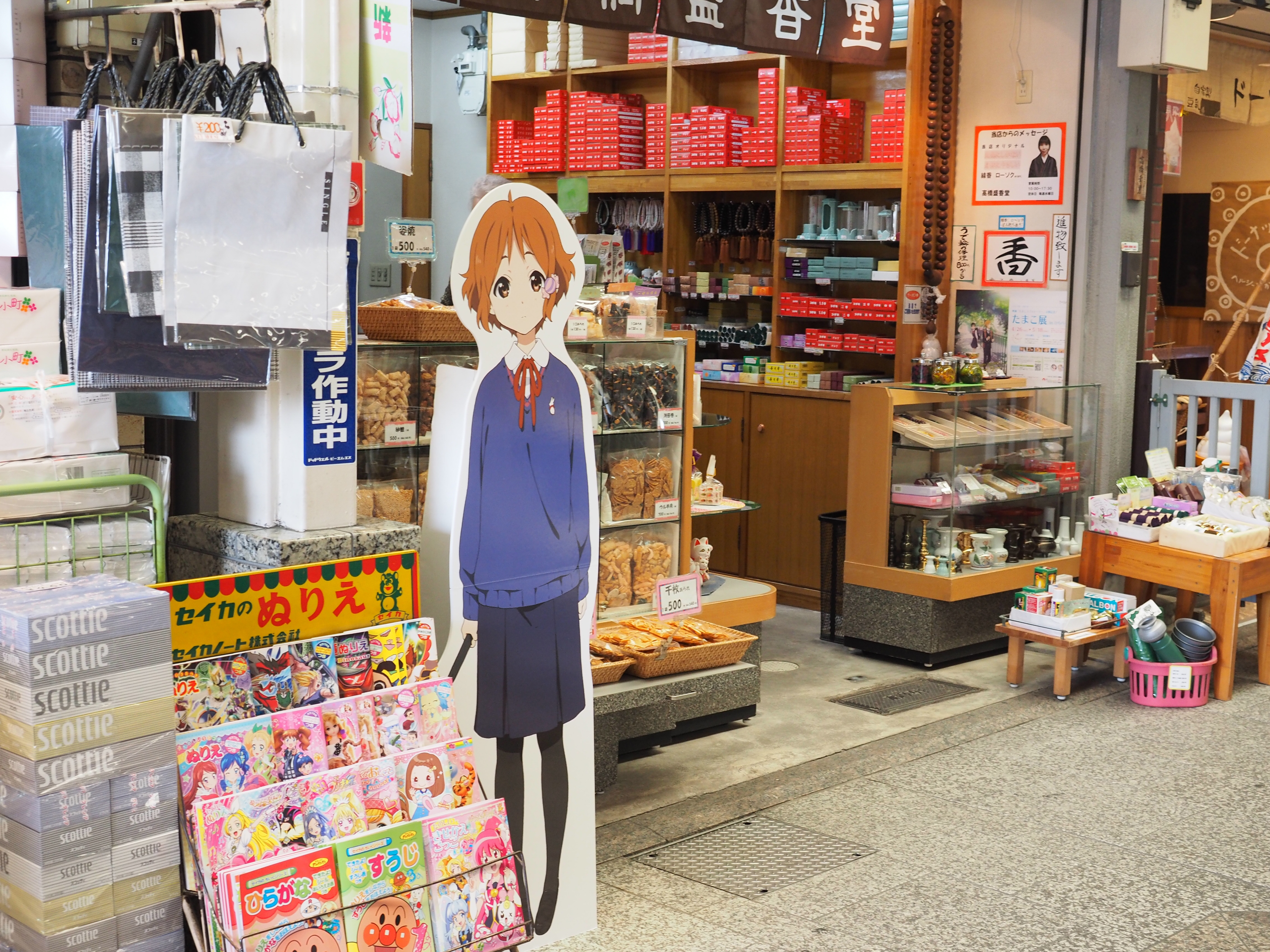 2014SpringKyoto